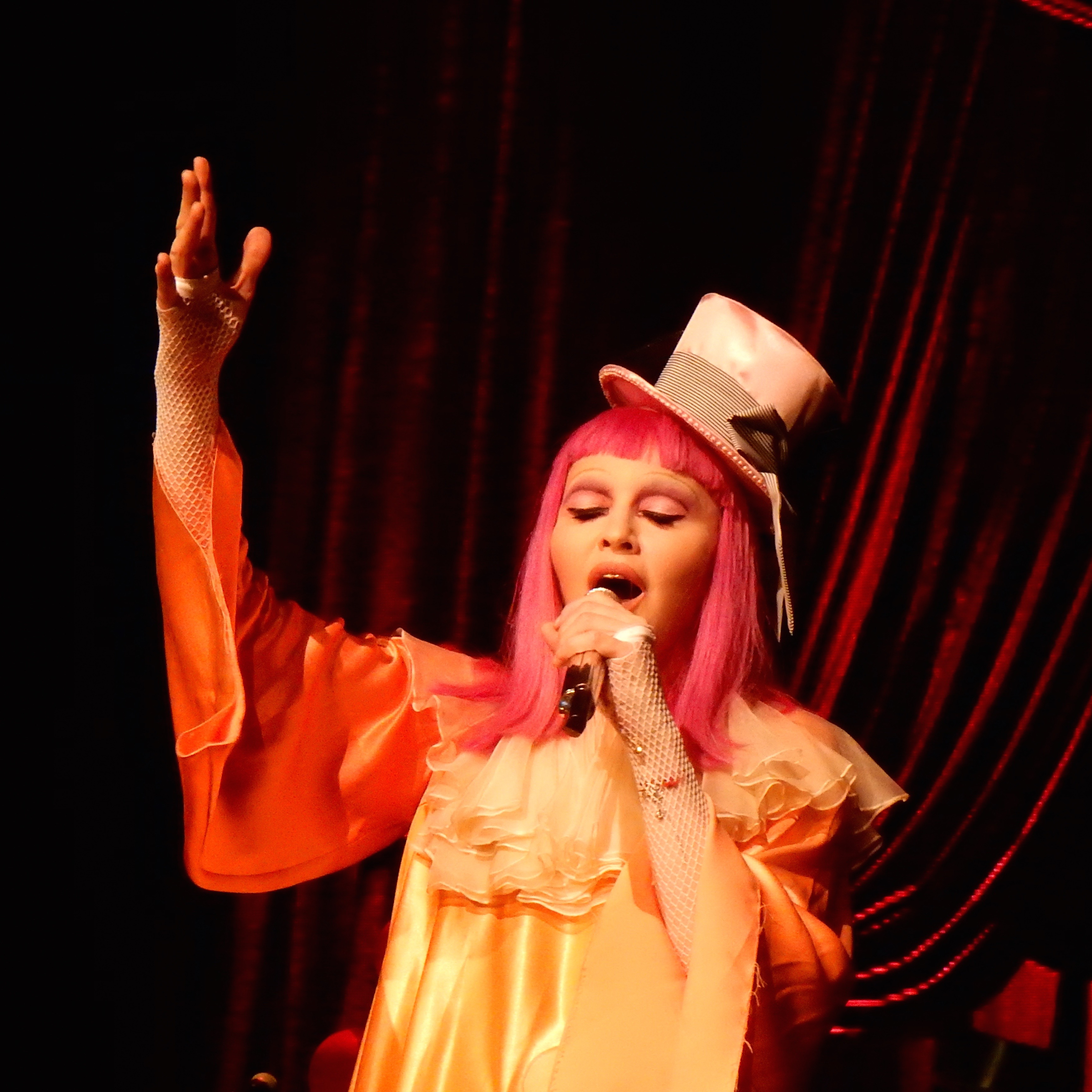 Special fan only show at The Forum, Melbourne, 10 March 2016